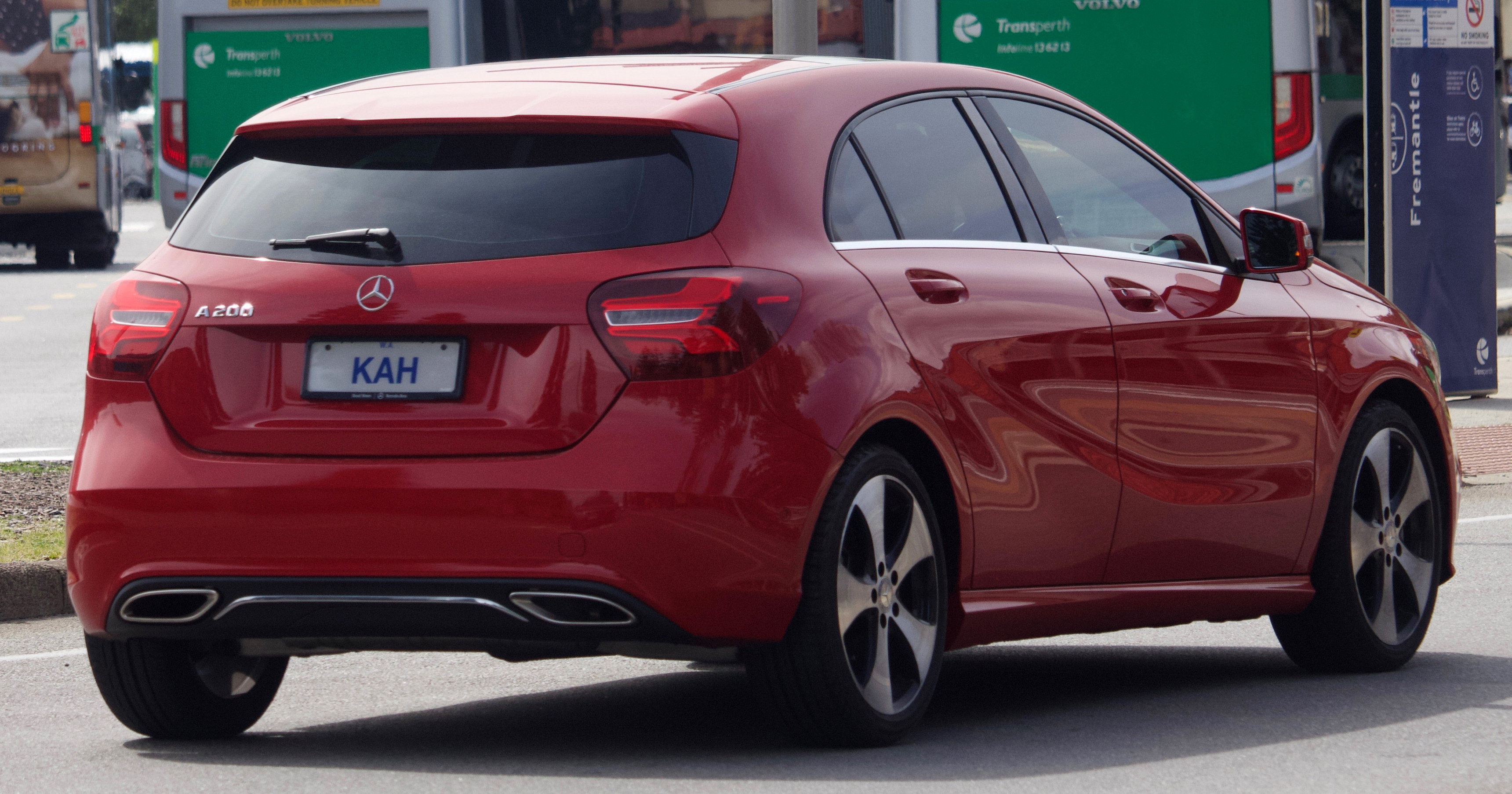 2017 Mercedes-Benz A 200 (W 176) hatchback. Photographed in Fremantle, Western Australia, Australia.